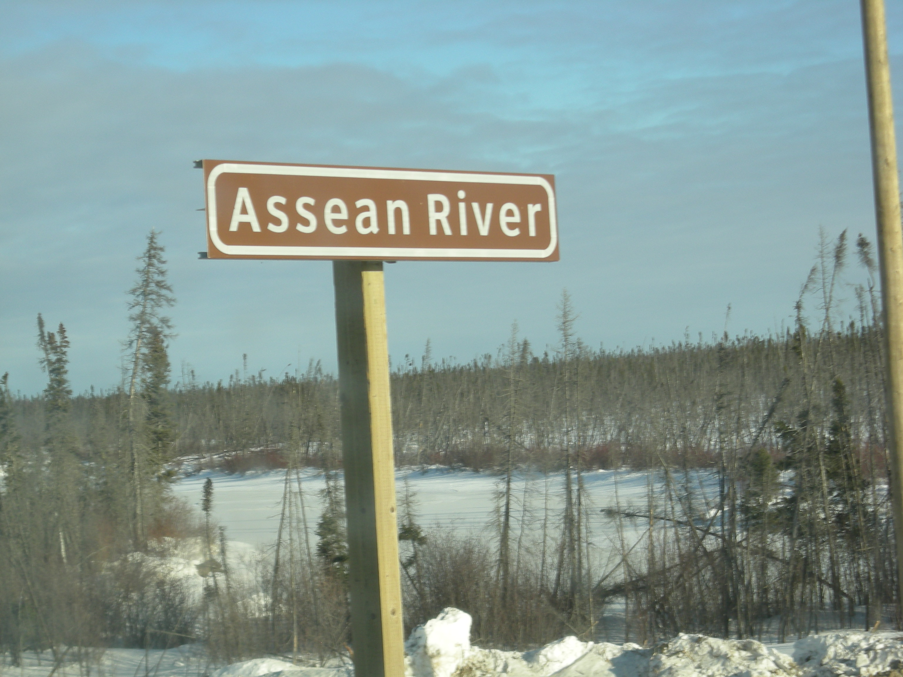 Assean River roadsign in Manitoba